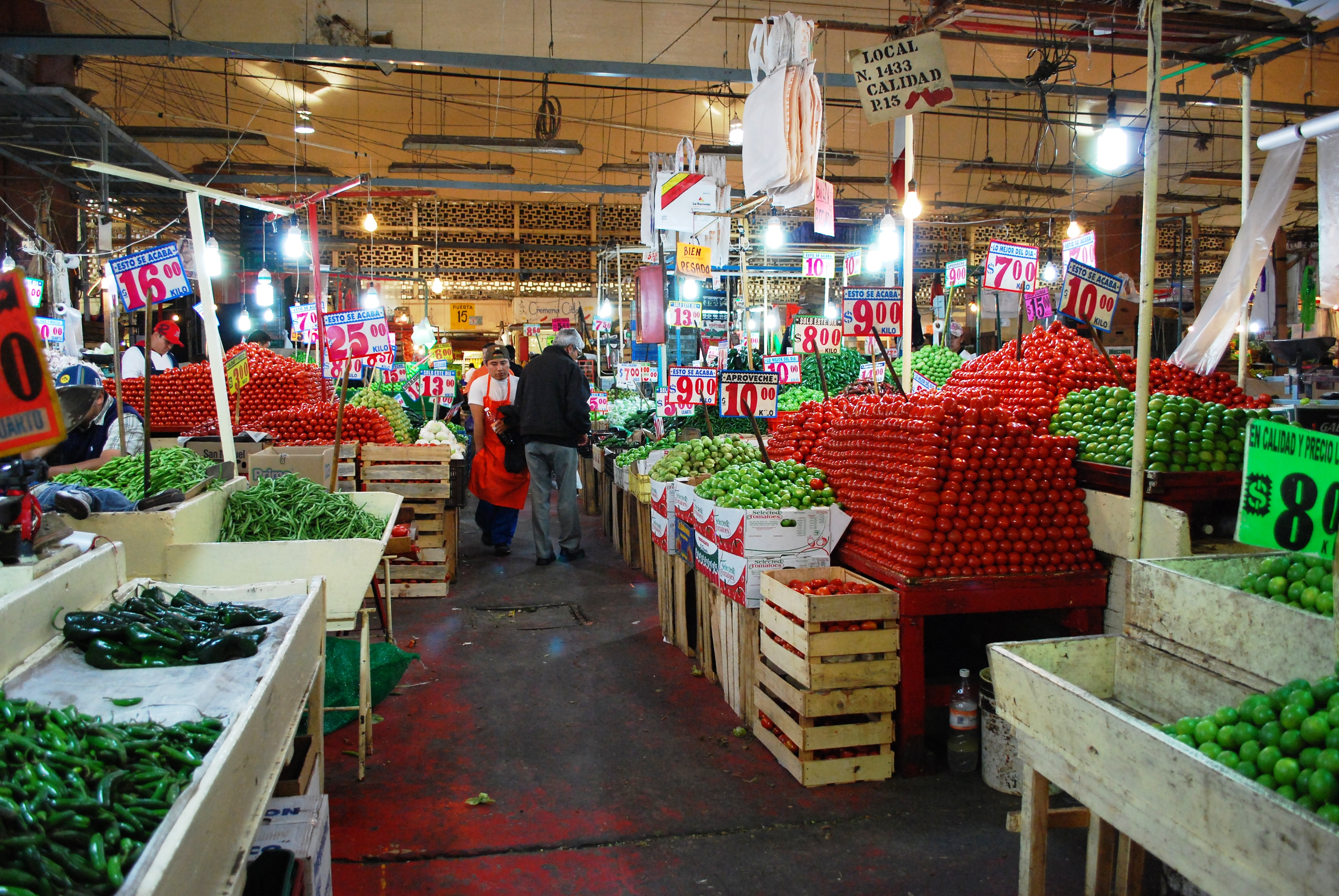 Tomatoes and other produce for sale at Merced Market, Mexico City